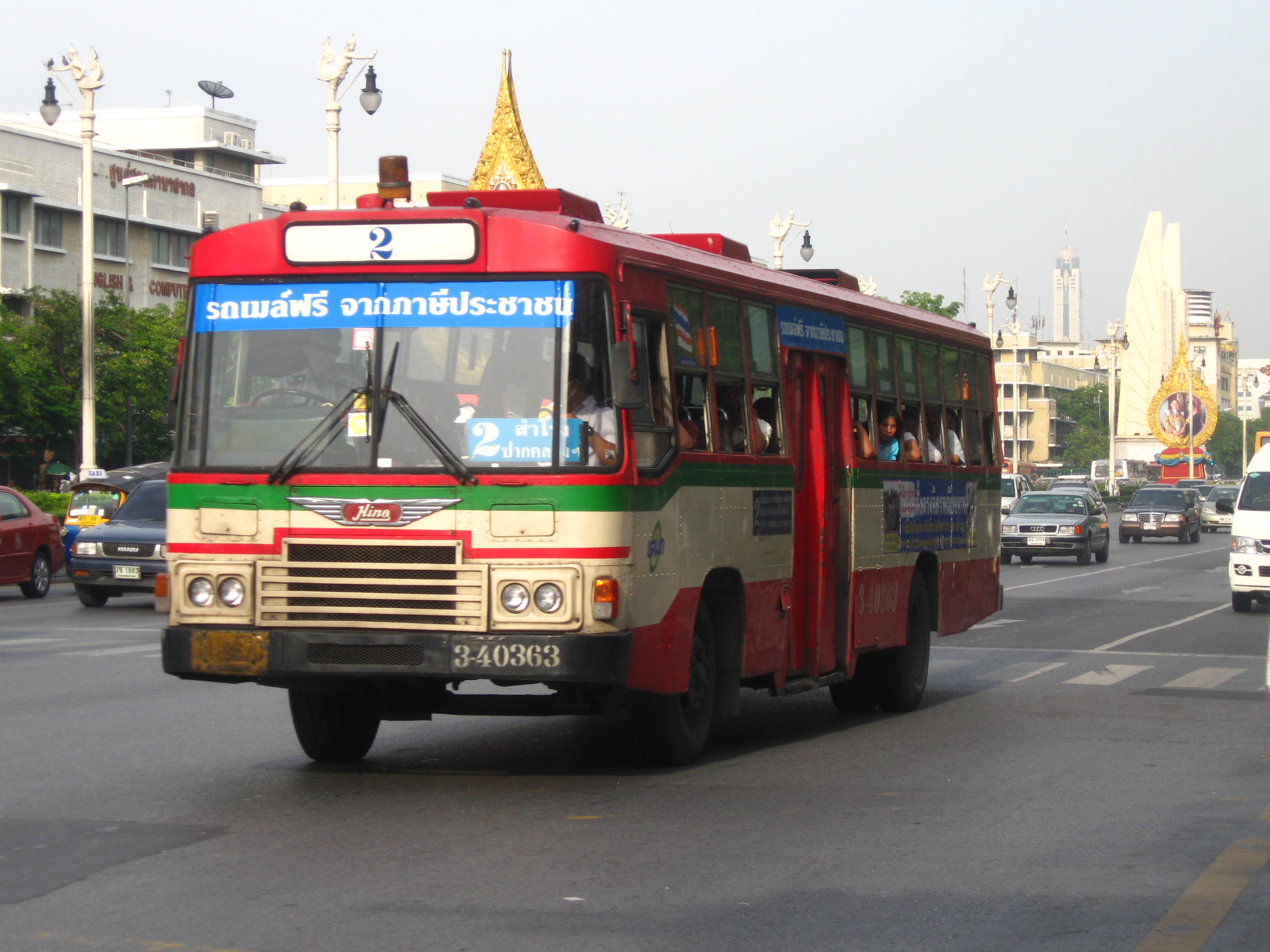 Hino bus in BMTA / Bangkok, Thailand